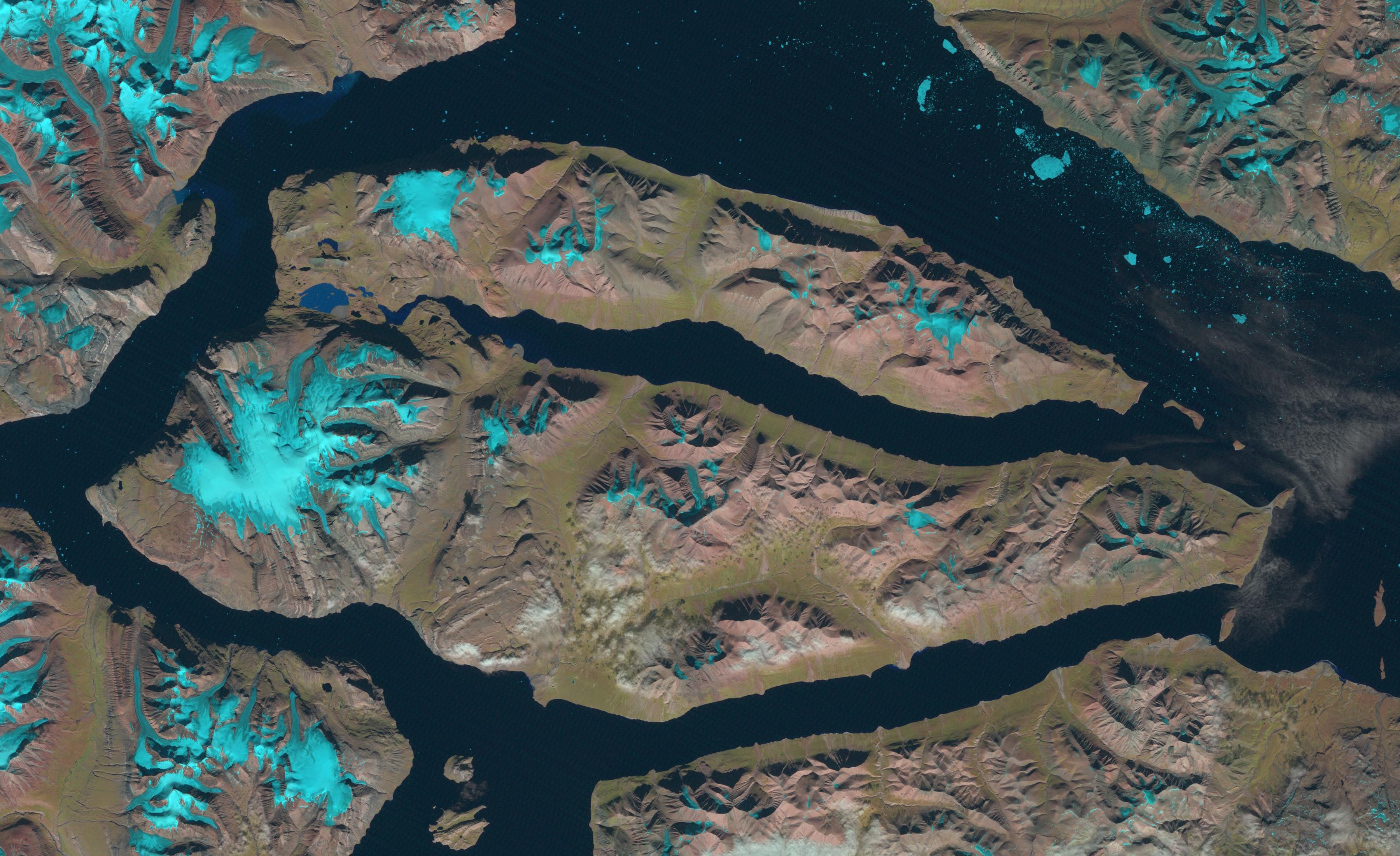 Ymer Island on the coast of Greenland